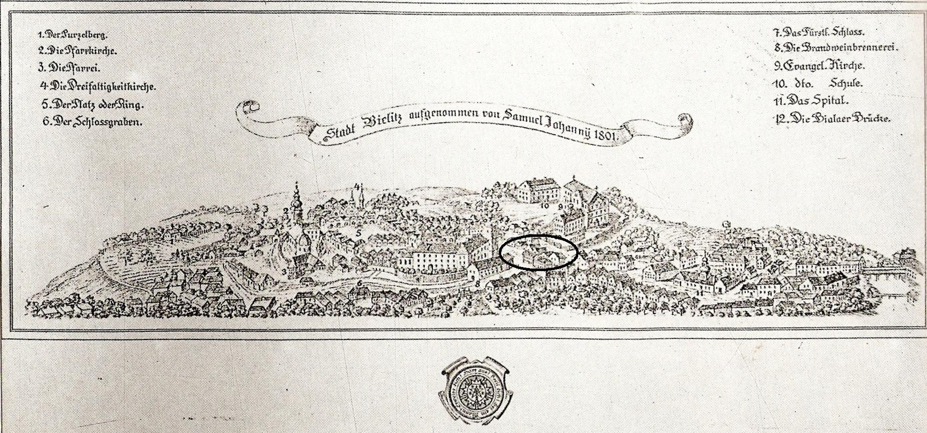 General view of Bielsko (Bielitz) from east in 1801. Woodcut by Samuel Johanny. Marked contemporary Bolesław Chrobry Square.